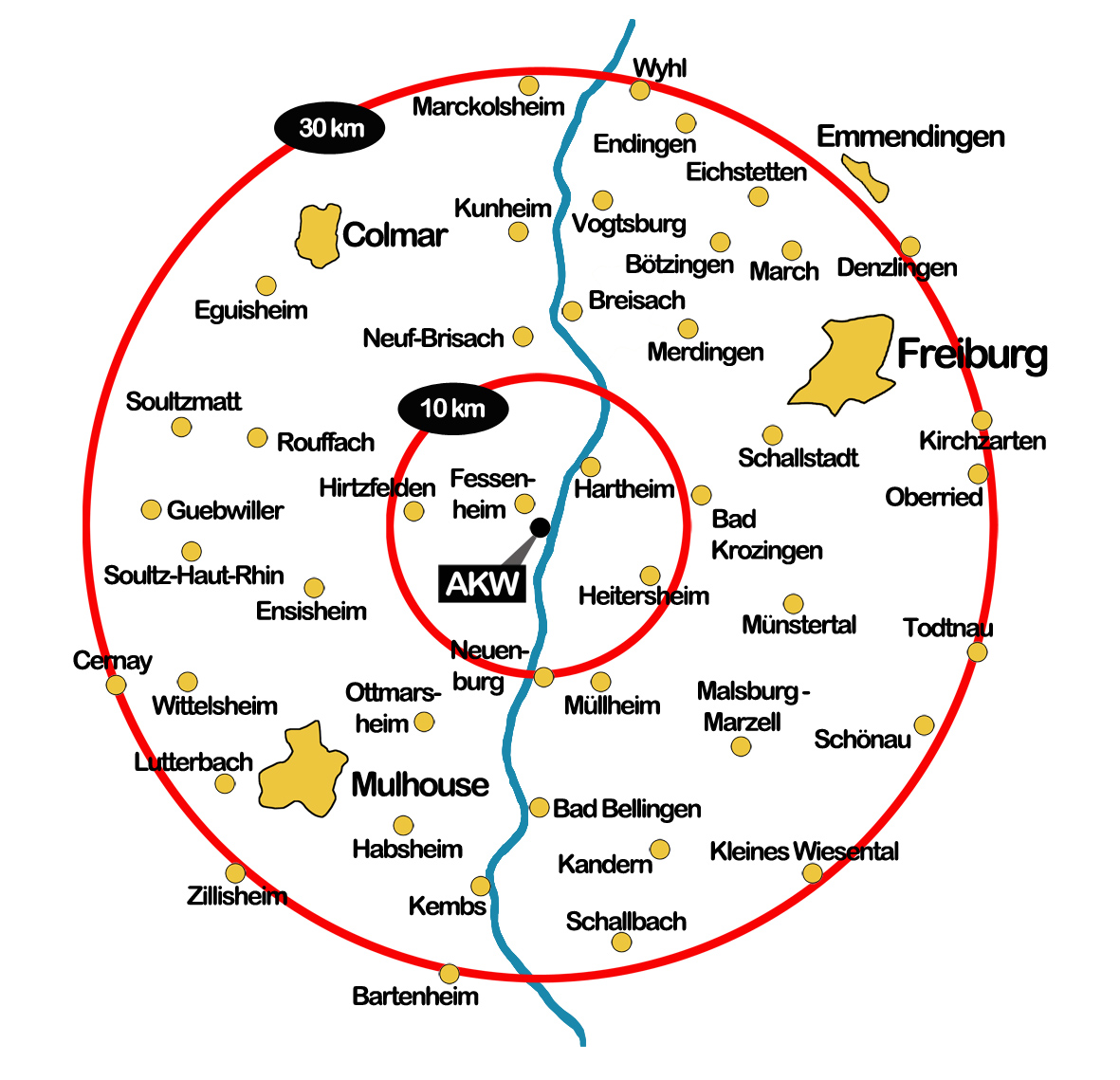 Plan of the evacuation areas around the nuclear power plant Fessenheim